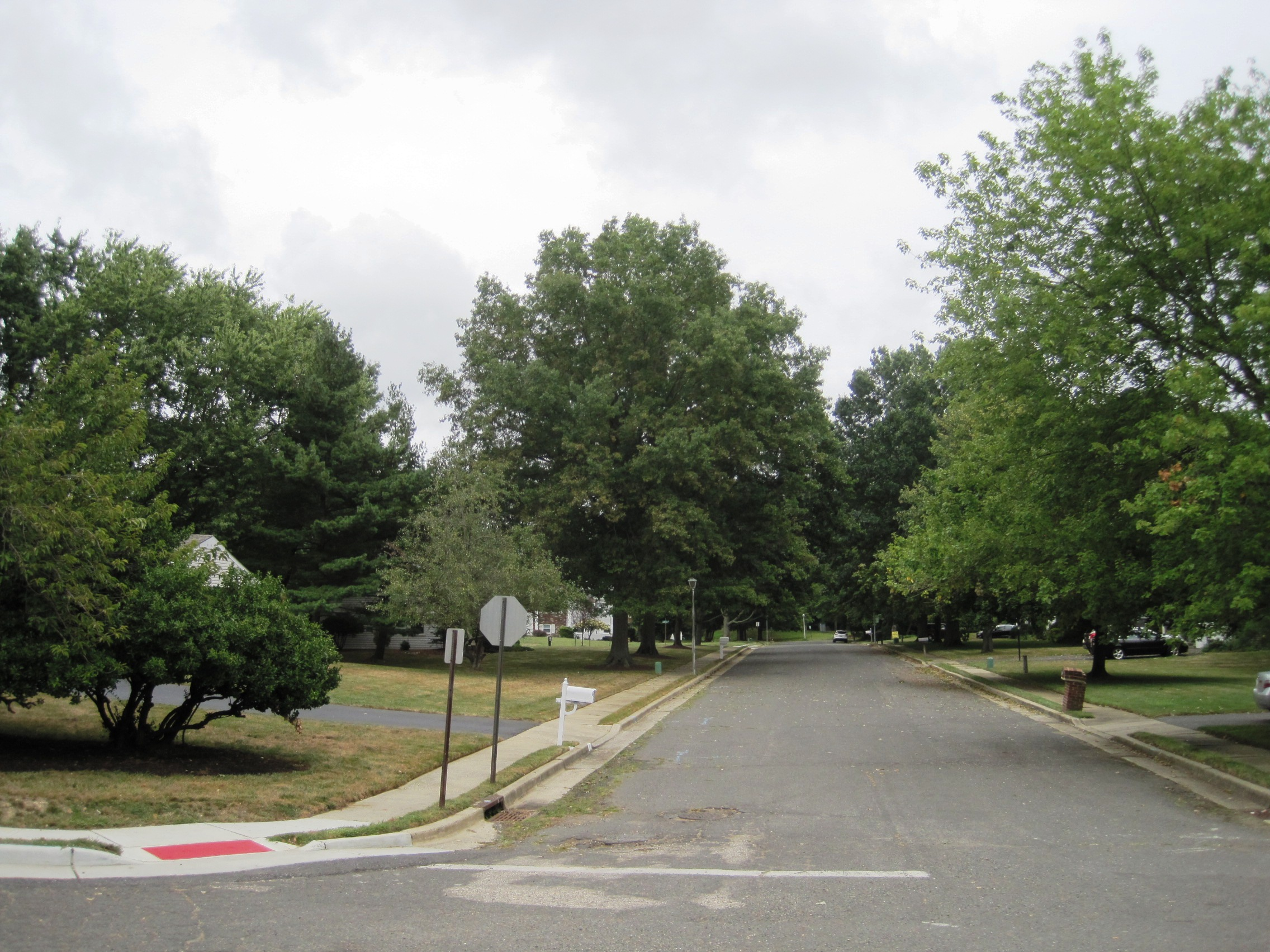 Photo of Monmouth Heights at Marlboro, New Jersey, an planned community within Marlboro Township. Photo taken along northbound New Jersey Route 79 looking east along Ogden Avenue.